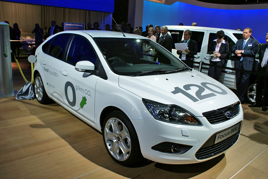 Ford Focus BEV at the 2009 Frankfurt Motor Show (IAA 2009)